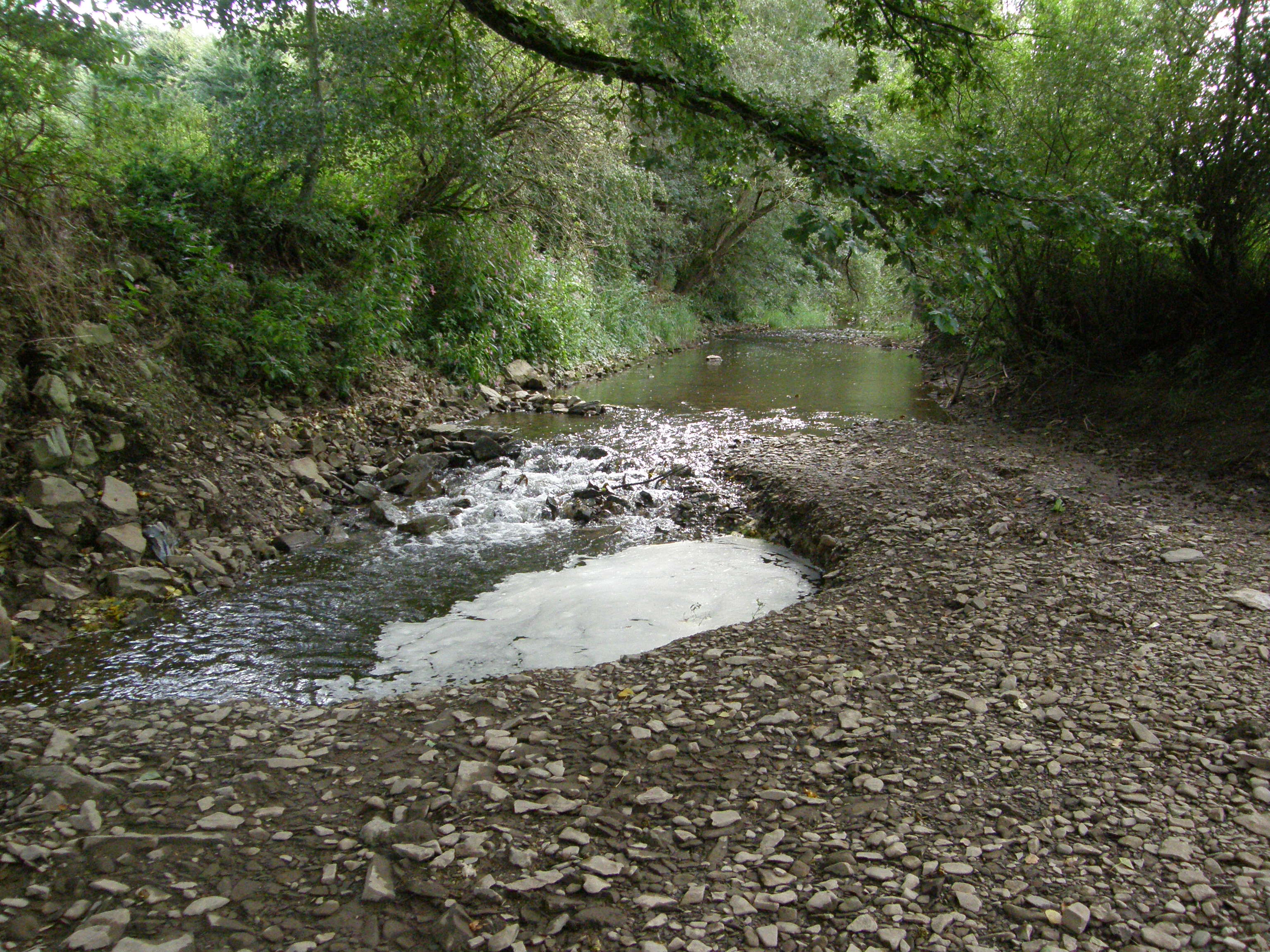 The Alme-river vanishes, near Wewelsburg, District of Paderborn, North Rhine-Westphalia, Germany